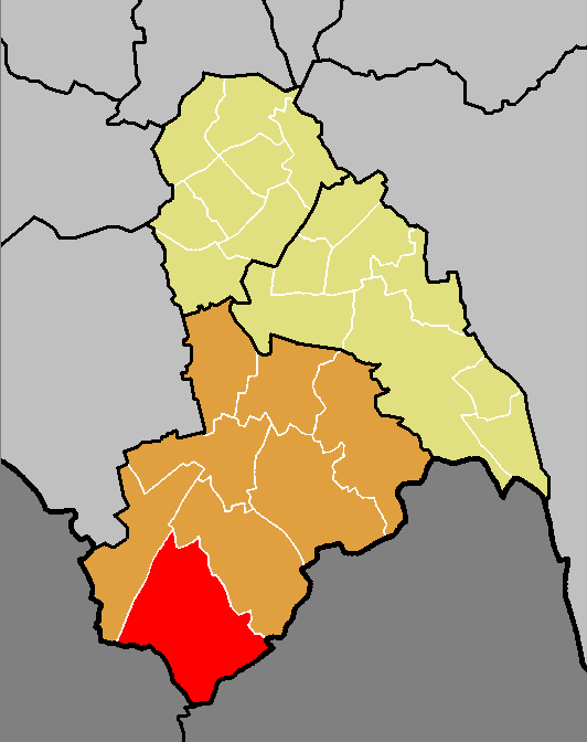 The ward of Coulsdon East (red) shown within the Croydon South constituency (orange) within the London Borough of Croydon (yellow).